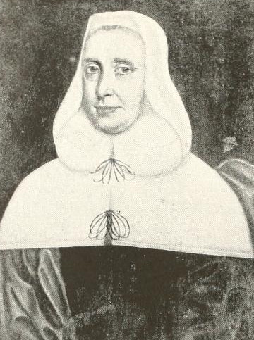 Reginald Corbet (born by 1513; died 1566), of Stoke upon Tern, Shropshire, England, a prominent English judge of the mid-Tudor period.